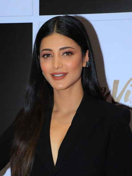 Shruti Haasan at the special screening of the short film ‘Devi’